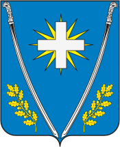 Coat of arms of Liapino, Novokubansk Raion, Krasnodar Krai, Russia.